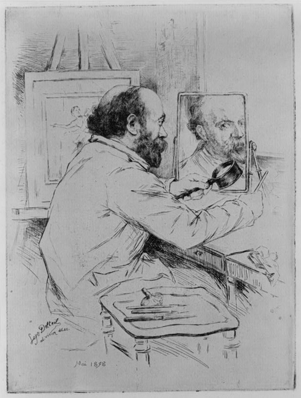 Self-portrait of French engraver Loÿs Delteil (1869-1927)